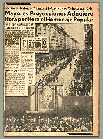 Cover for Clarín newspaper.